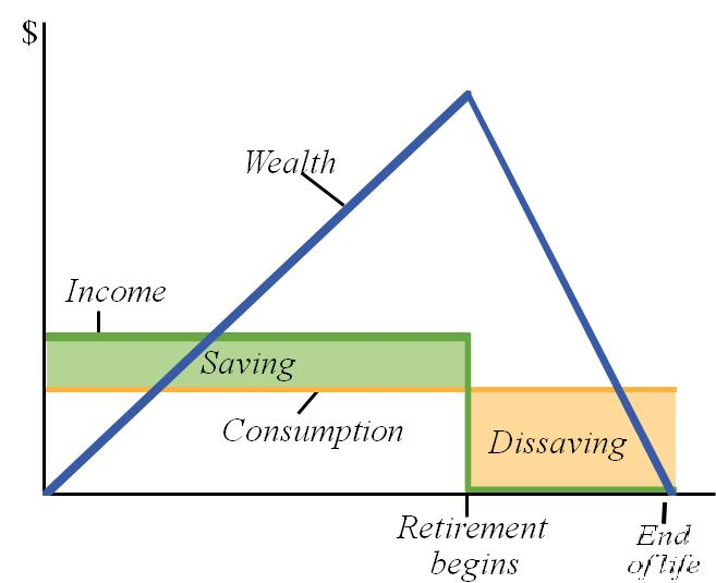 A person’s MPC(marginal propensity to consume) is relatively high during young adulthood, decreases during the middle-age years, and increases when the person is near or in retirement.